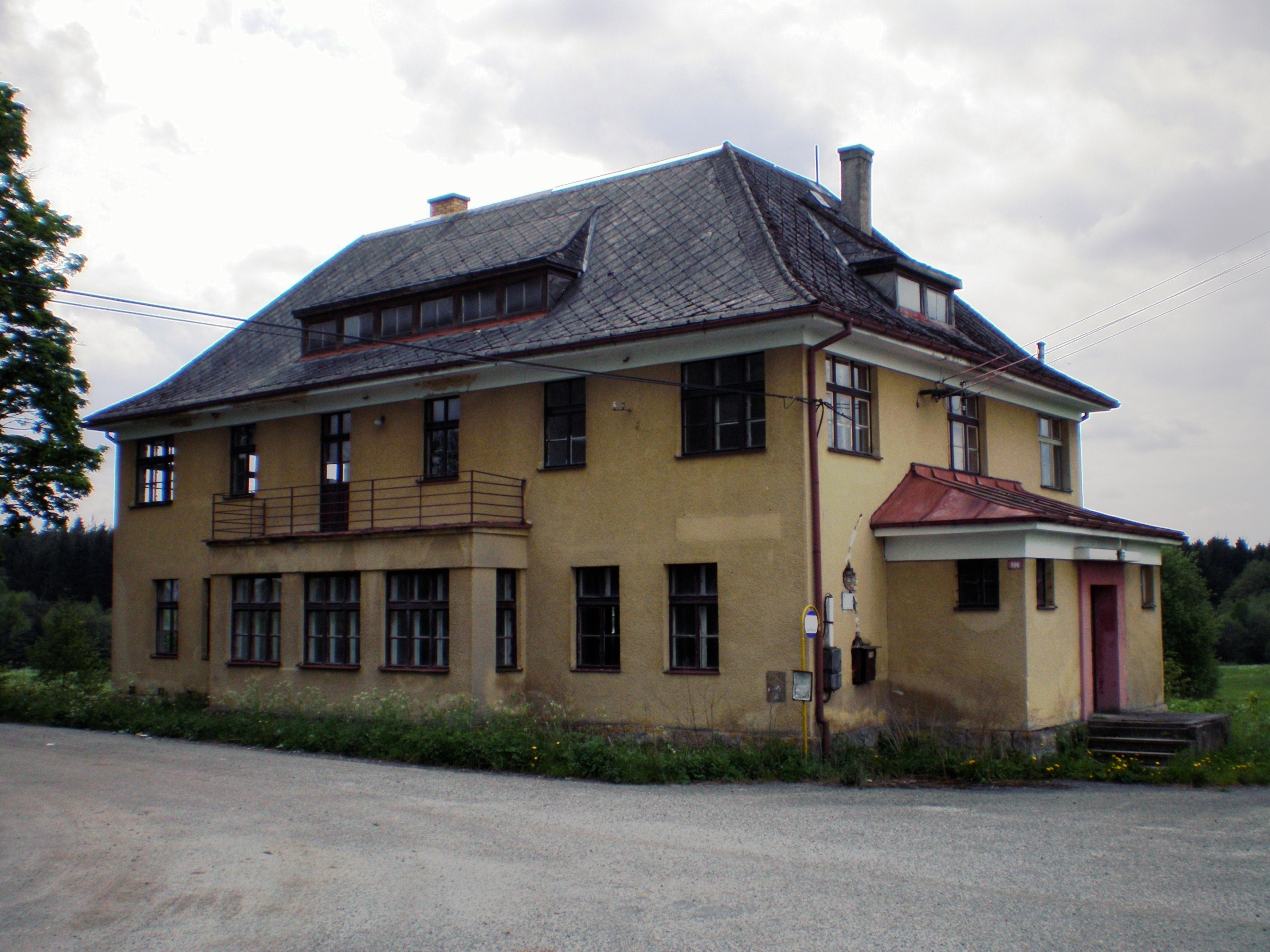 Abandoned Restaurant in Trojmezí (Hranice), Cheb District, Czech Republic.